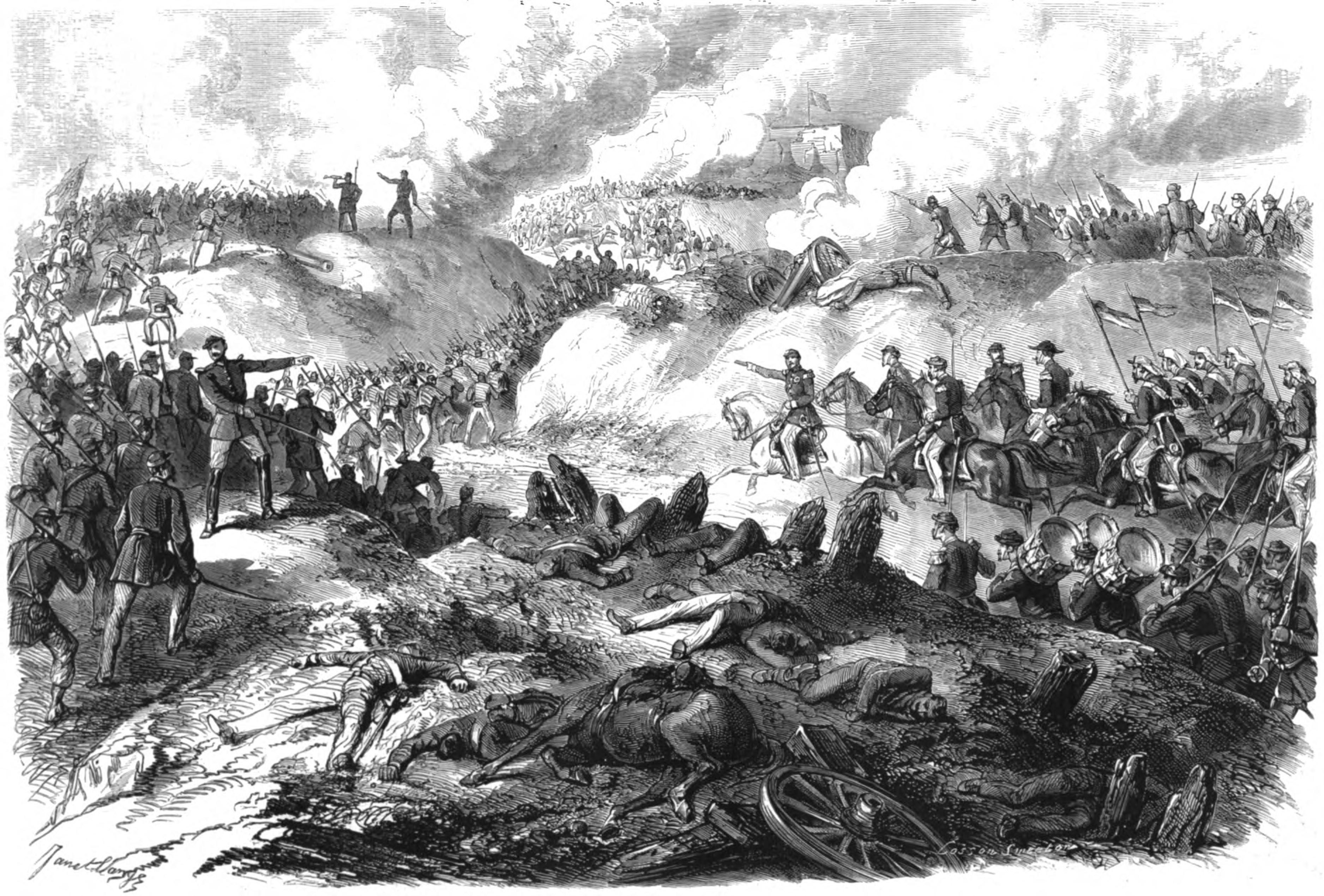 Old illustration of battlefield in Paraguay, during the war of the Triple Alliance. By Janet-Lange and Cosson-Smeeton after sketch of Paranhos. Publ. on L'Illustration, Journal Universel, Paris, 1868.